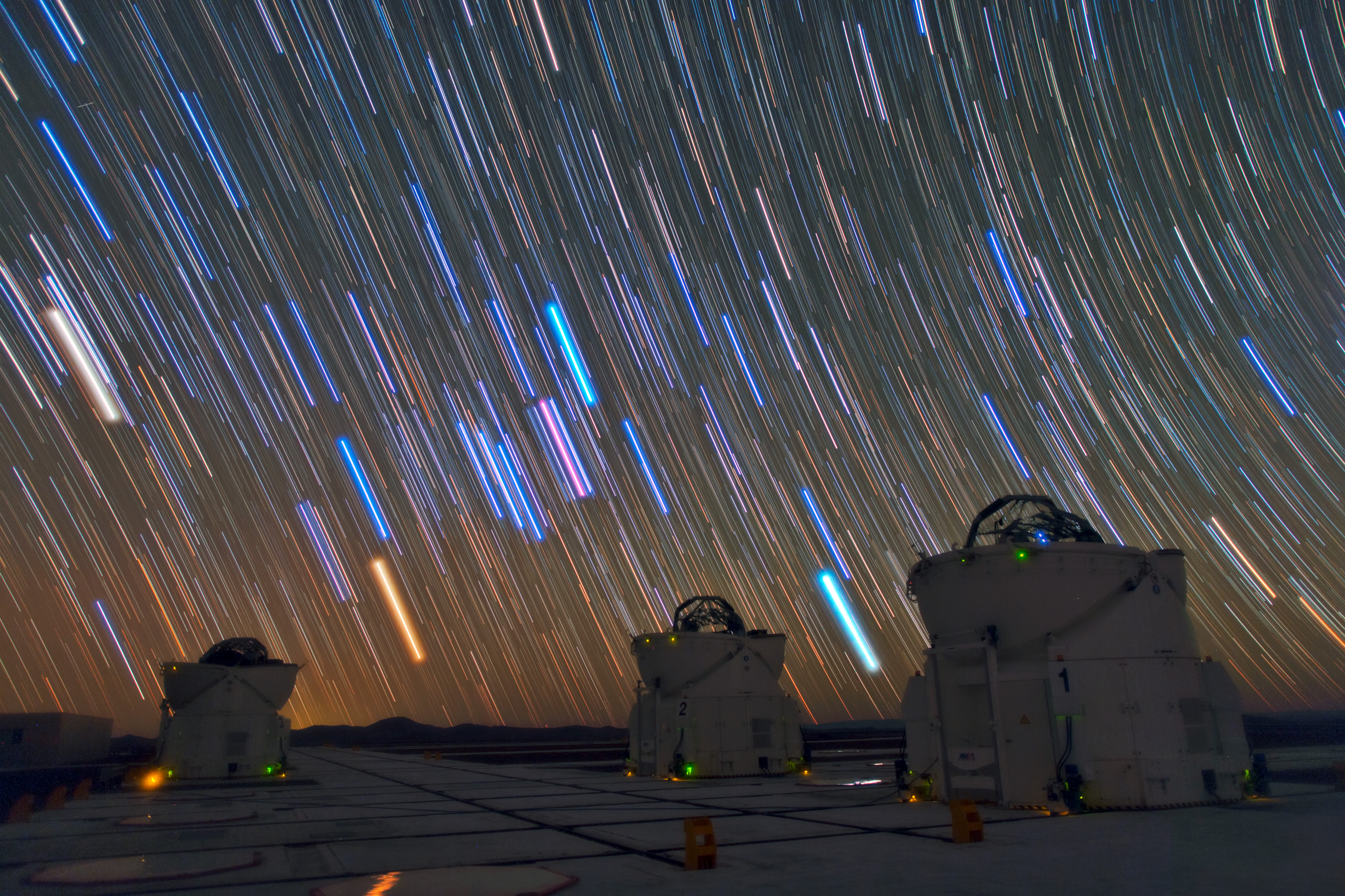 This image was taken by Babak A. Tafreshi, one of ESO’s Photo Ambassadors, at ESO’s Paranal Observatory. It shows three of the four Auxiliary Telescopes (ATs) of the Very Large Telescope Interferometer (VLTI). Above them, the long bright stripes are star trails, each one marking the apparent path of a single star across the dark night sky, due to the rotation of the Earth. This technique also enhances the natural colours of the stars, which gives an indication of their temperature, ranging from about 1000 degrees Celsius for the reddest stars to a few tens of thousands of degrees Celsius for the hottest, which appear blue. The sky in this remote and high location in Chile is extremely clear and there is no light pollution, offering us this amazing light show.